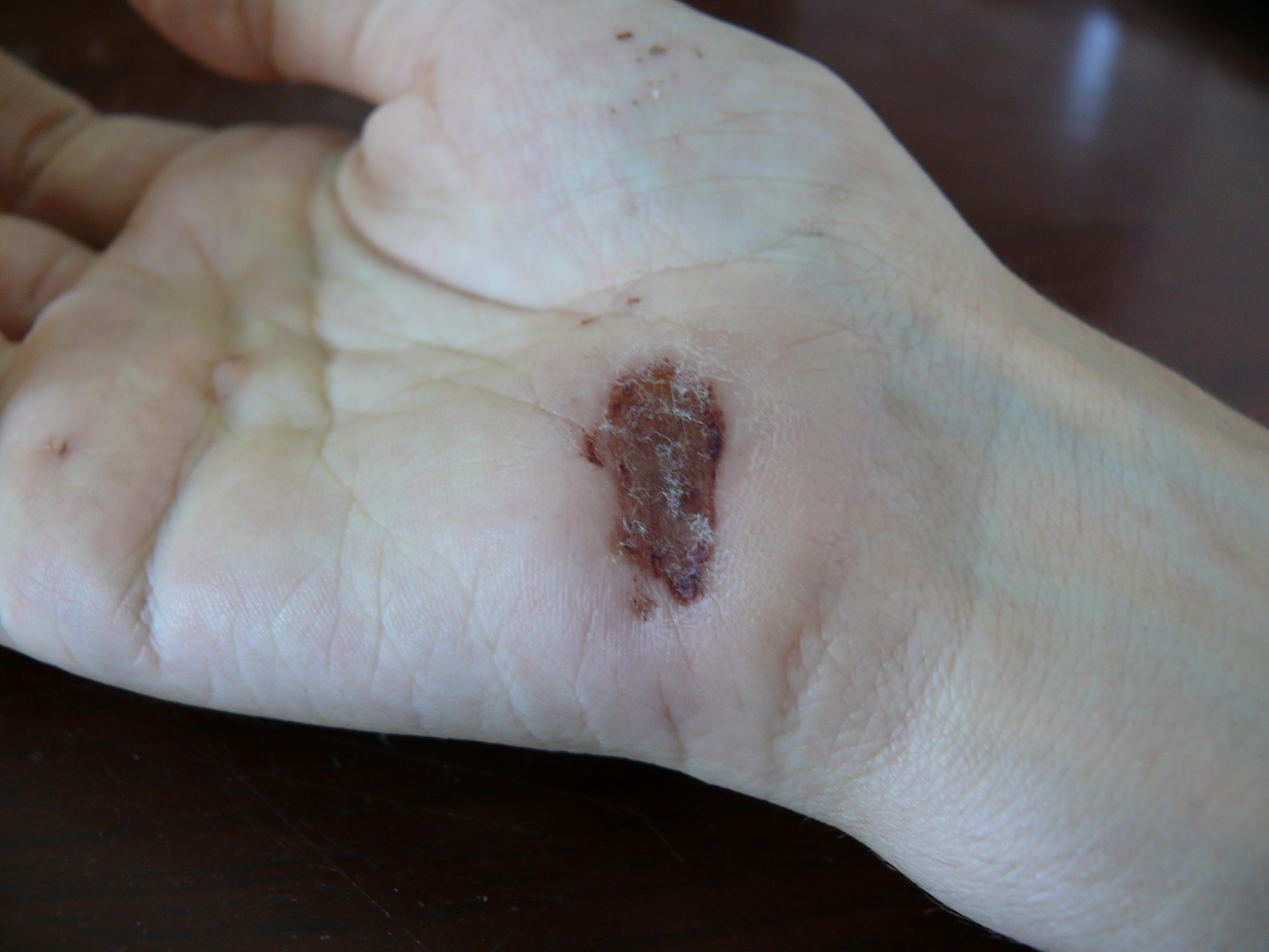 Wound on palm of hand four days after falling off a bike onto concrete. Previous photos: Day 1: Image:Wound on palm of hand.jpg Day 2: Image:Wound on palm of hand - day 2.jpg Day 3: Image:Wound on palm of hand - day 3.jpg Following photos: Day 5: Image:Wound on palm of hand - day 5.jpg Day 6: Image:Wound on palm of hand - day 6.jpg Day 7: Image:Wound on palm of hand - day 7.jpg Day 8: Image:Wound on palm of hand - day 8.jpg Day 9: Image:Wound on palm of hand - day 9.jpg Day 10: Image:Wound on palm of hand - day 10.jpg Day 11: Image:Wound on palm of hand - day 11.jpg Day 12: Image:Wound on palm of hand - day 12.jpg Day 13: Image:Wound on palm of hand - day 13.jpg Day 14: Image:Wound on palm of hand - day 14.jpg Day 15: Image:Wound on palm of hand - day 15.jpg Day 16: Image:Wound on palm of hand - day 16.jpg Day 17: Image:Wound on palm of hand - day 17.jpg Day 18: Image:Wound on palm of hand - day 18.jpg Day 19: Image:Wound on palm of hand - day 19.jpg Day 20: Image:Wound on palm of hand - day 20.jpg